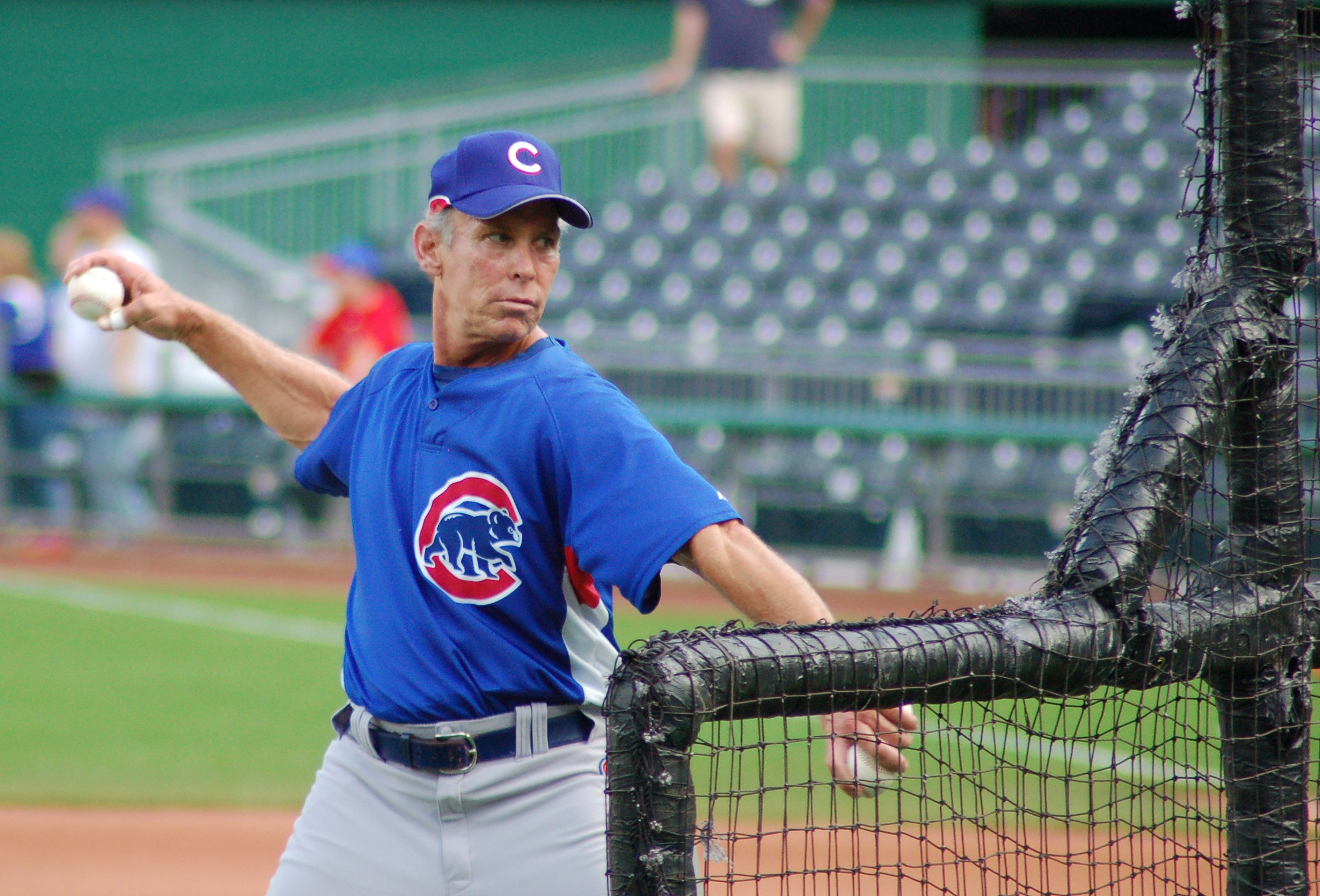 Chicago Cubs coach Alan Trammell throwing batting practice.